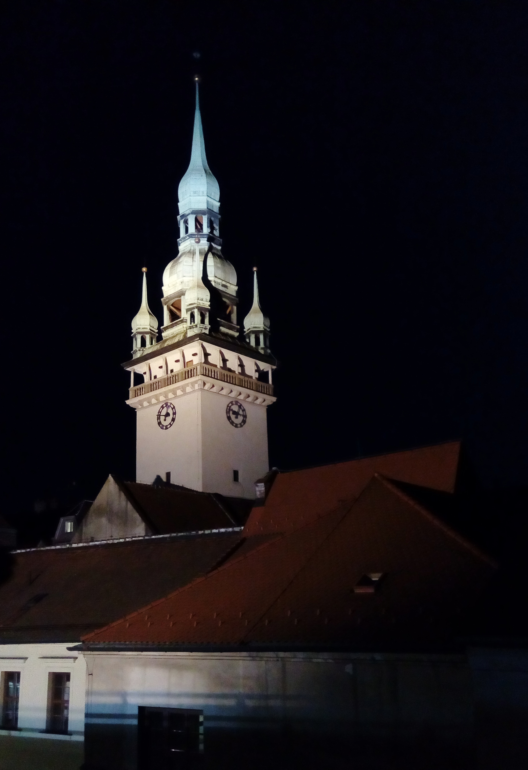 Old Townhall tower in the city of Brno, Moravia, Czech Republic as seen from the north.